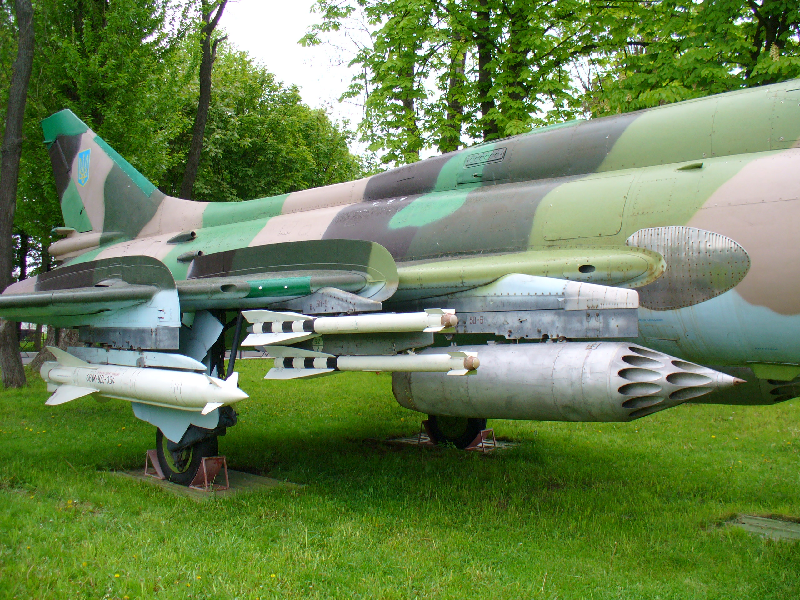 The Sukhoi Su-17M3 (NATO reporting name: "Fitter-H"), a Soviet attack aircraft. Ukrainian Air Force Museum in Vinnitsa.